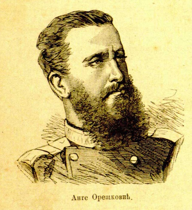 Ante Orešković, Serbian captain from Serb-Turkish wars (1876-78)